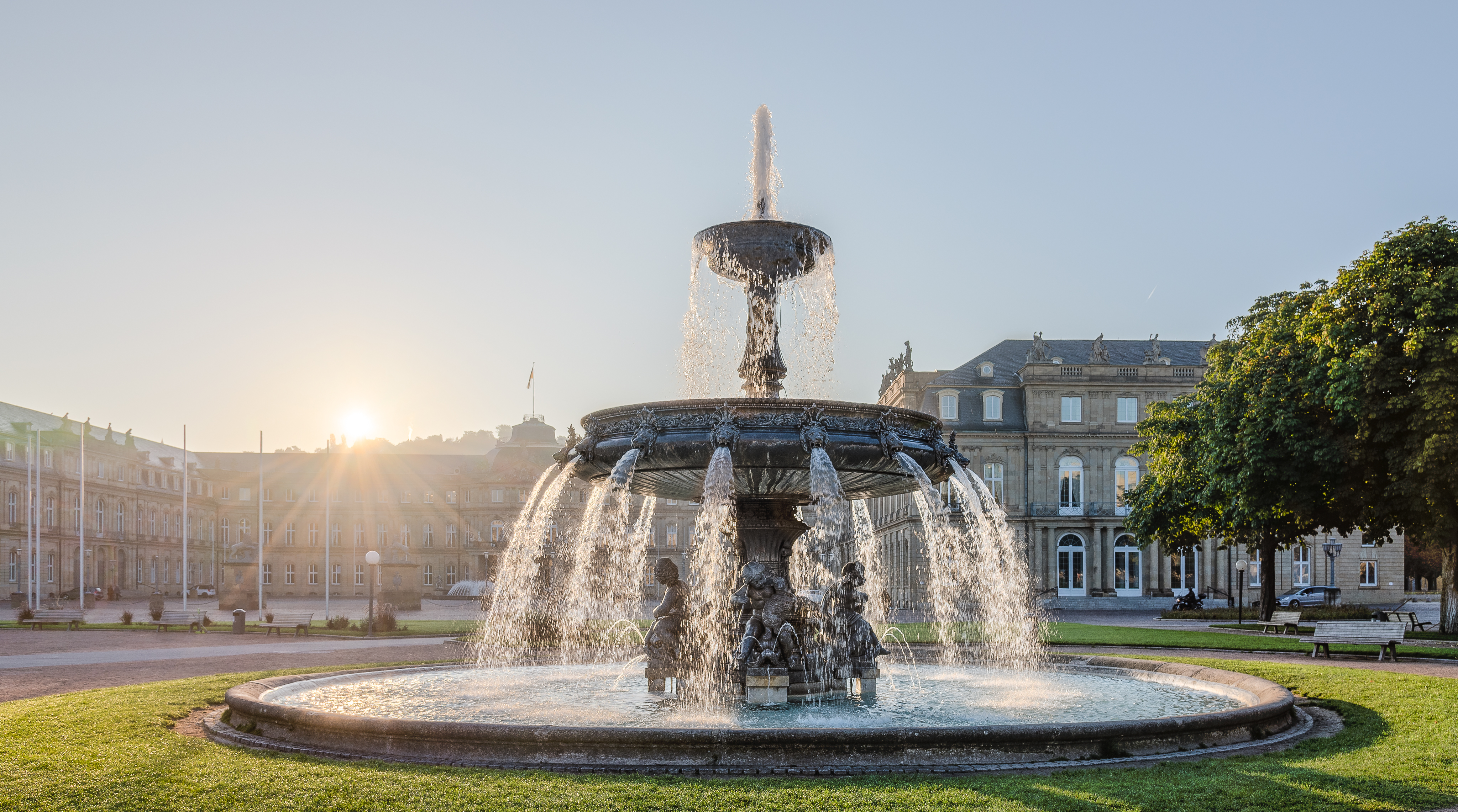 Schlossplatzspringbrunnen (Schlossplatz, Stuttgart, Germany).